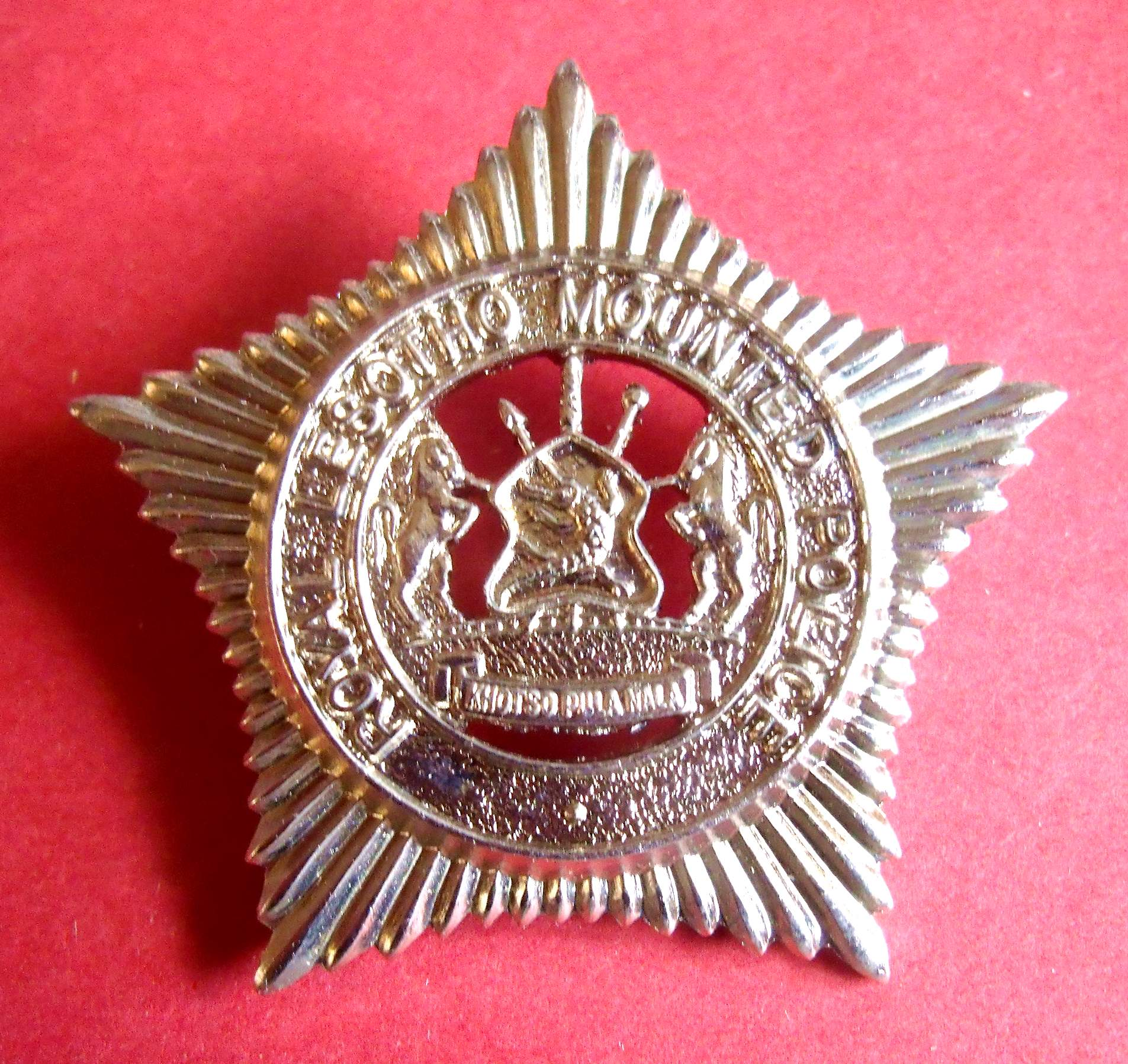 Part of my International Law enforcement badge collection This force was titled "Royal Lesotho Mounted Police only during the period 1986 to 1998. Lesotho, is a landlocked country and enclave, completely surrounded by its only neighbouring country, the Republic of South Africa.